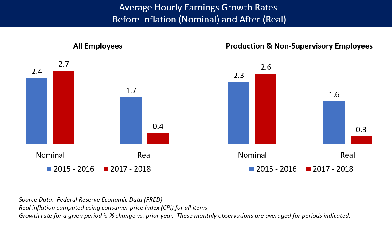 U.S. real (inflation-adjusted) and nominal earnings growth comparing 2015-2016 with 2017-2018